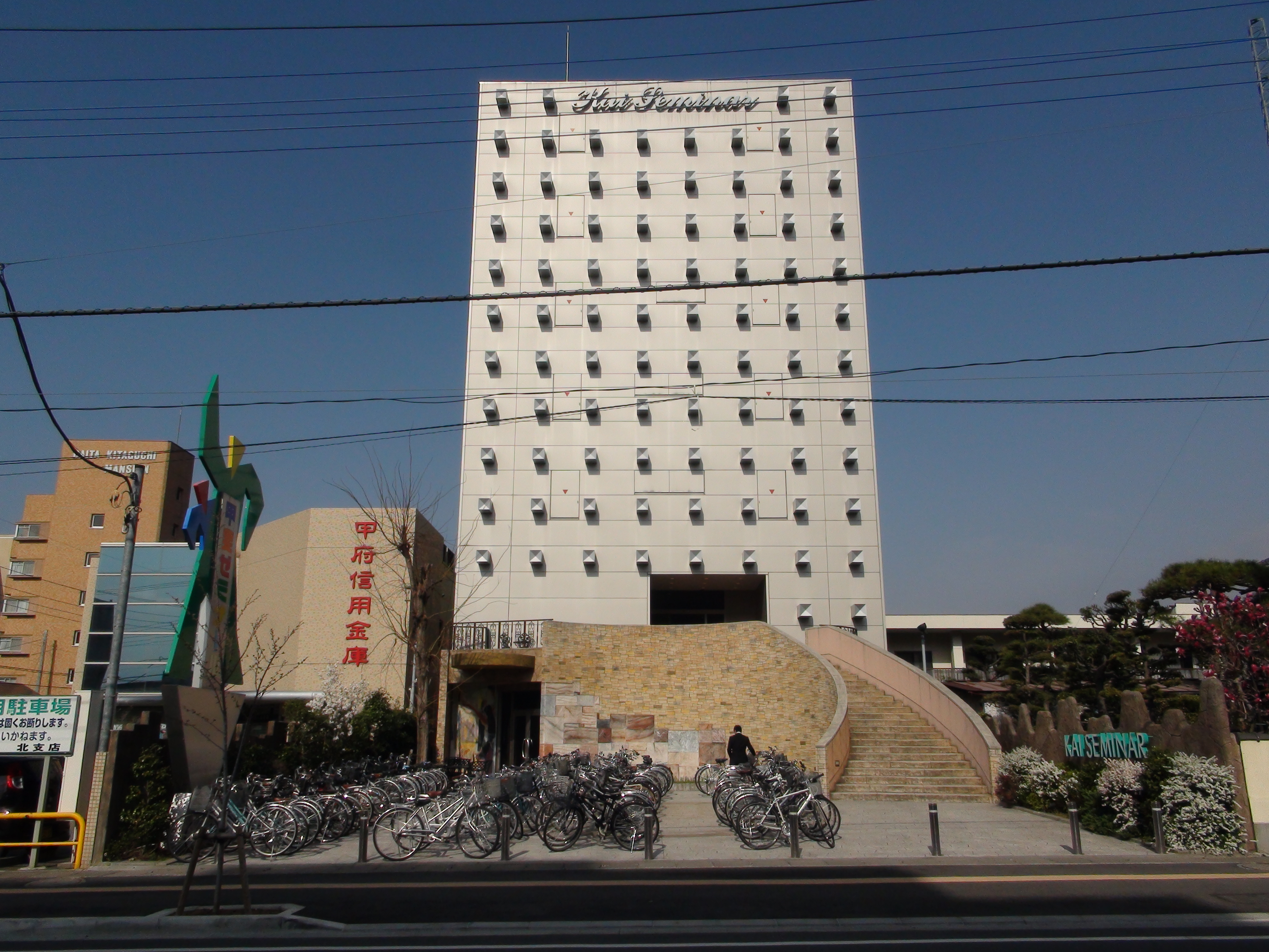 Kai Seminar Head office